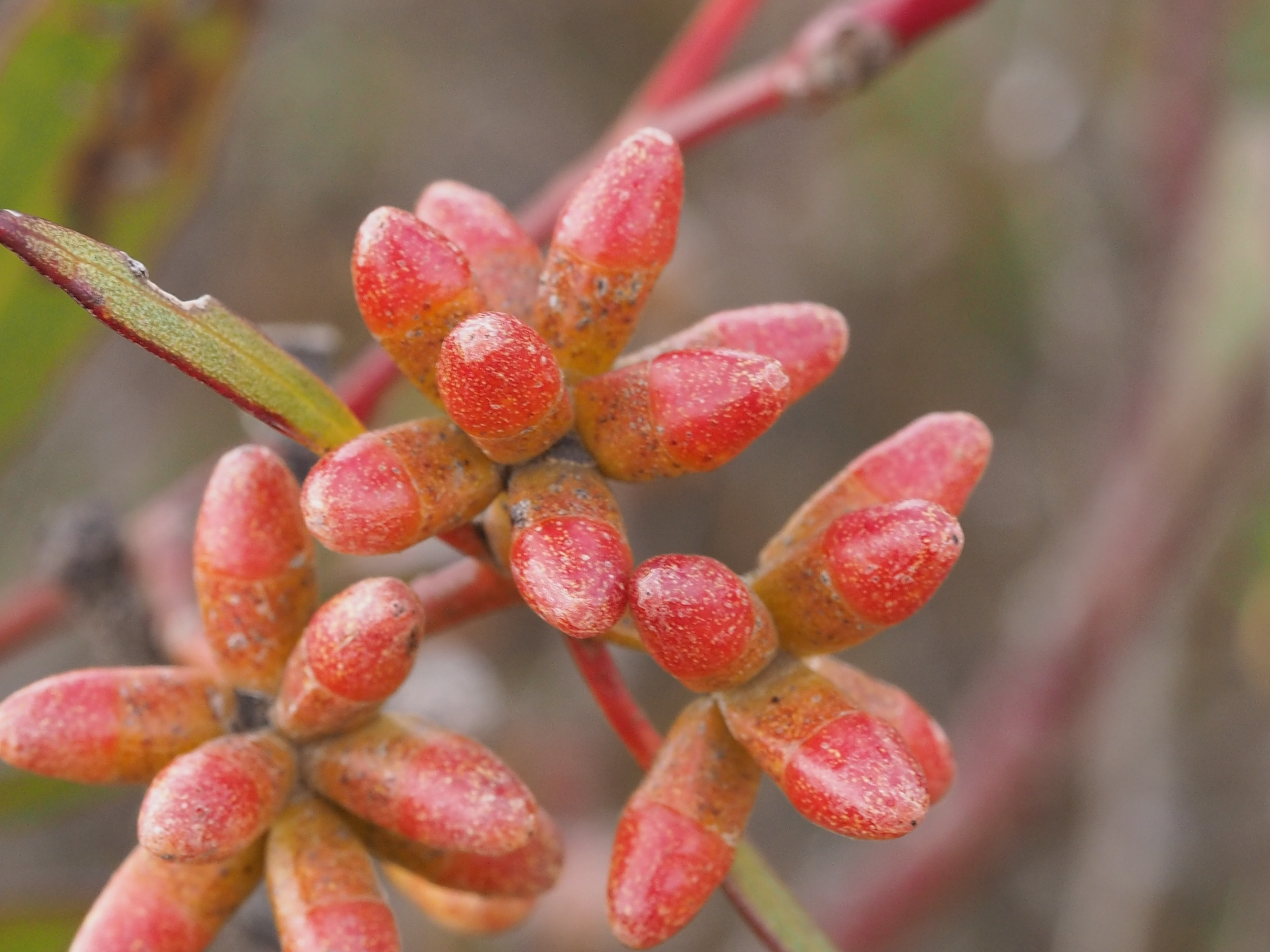 Flower buds of Eucalyptus dissimulata, near the Old Ongerup Road crossing of the Hammersley River